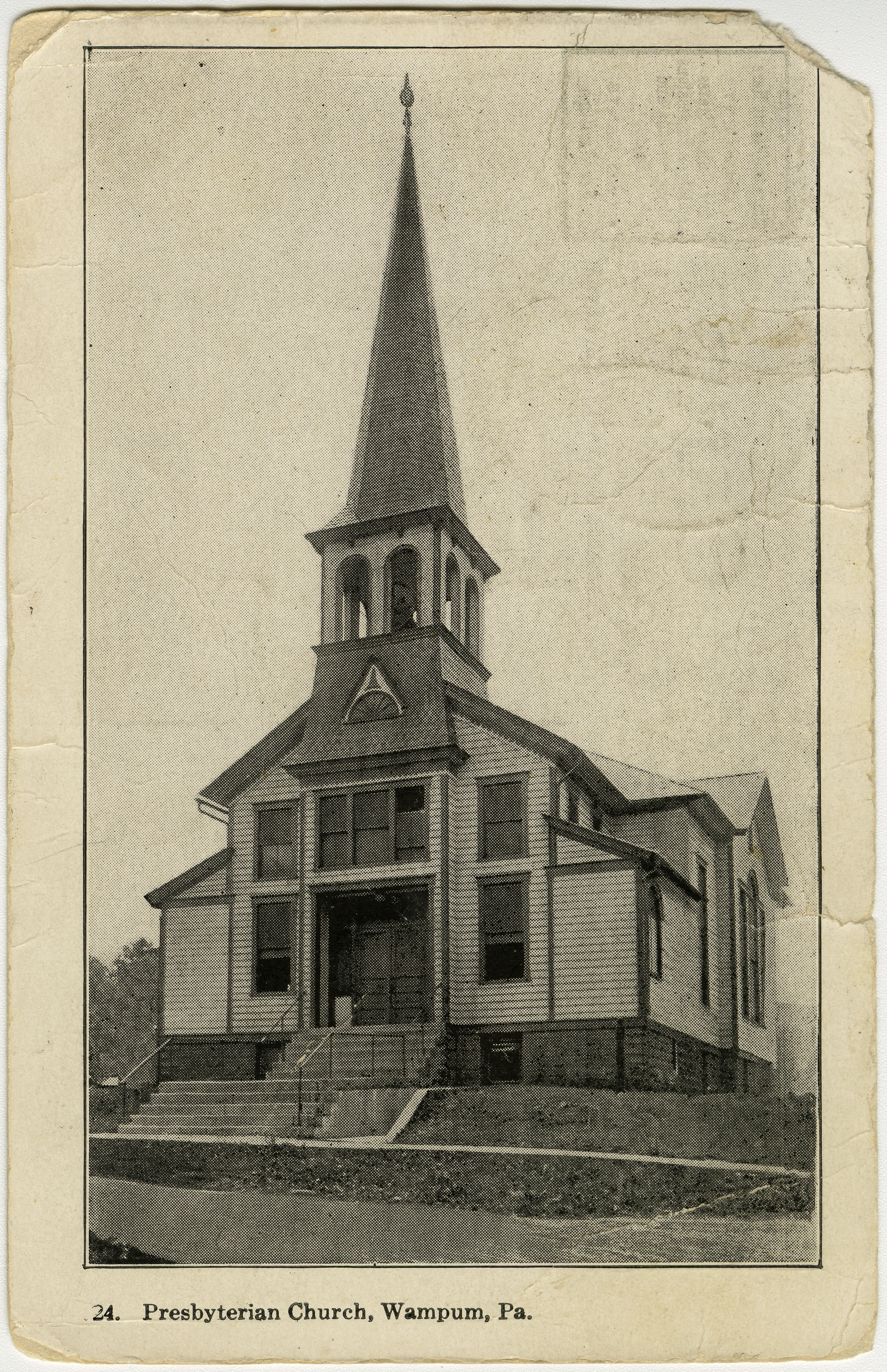 Presbyterian Church in Wampum, Pennsylvania from a pre-1923 postcard From RG 428, Postcard Collection, Presbyterian Historical Society, Philadelphia, Pennsylvania. Located at the corner of Main and Clyde Streets in Wampum, Lawrence County, Pennsylvania